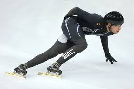 A photograph of Kyle Carr competing as a short track speed skater.